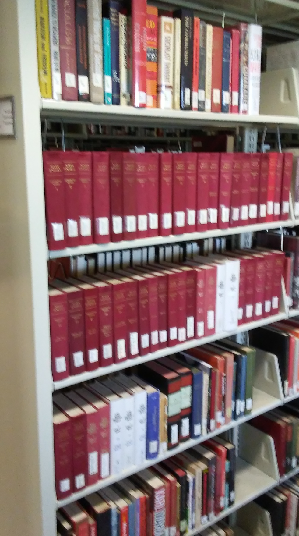 Volumes of the "MECW", or Marx/Engels Collected Works, on shelves at the University of St. Thomas, Minnesota.